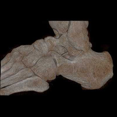 Human Foot, sagital view, Bone, very high resolution 3D reconstruction from CT-scans volume reconstruction technique (VRT)